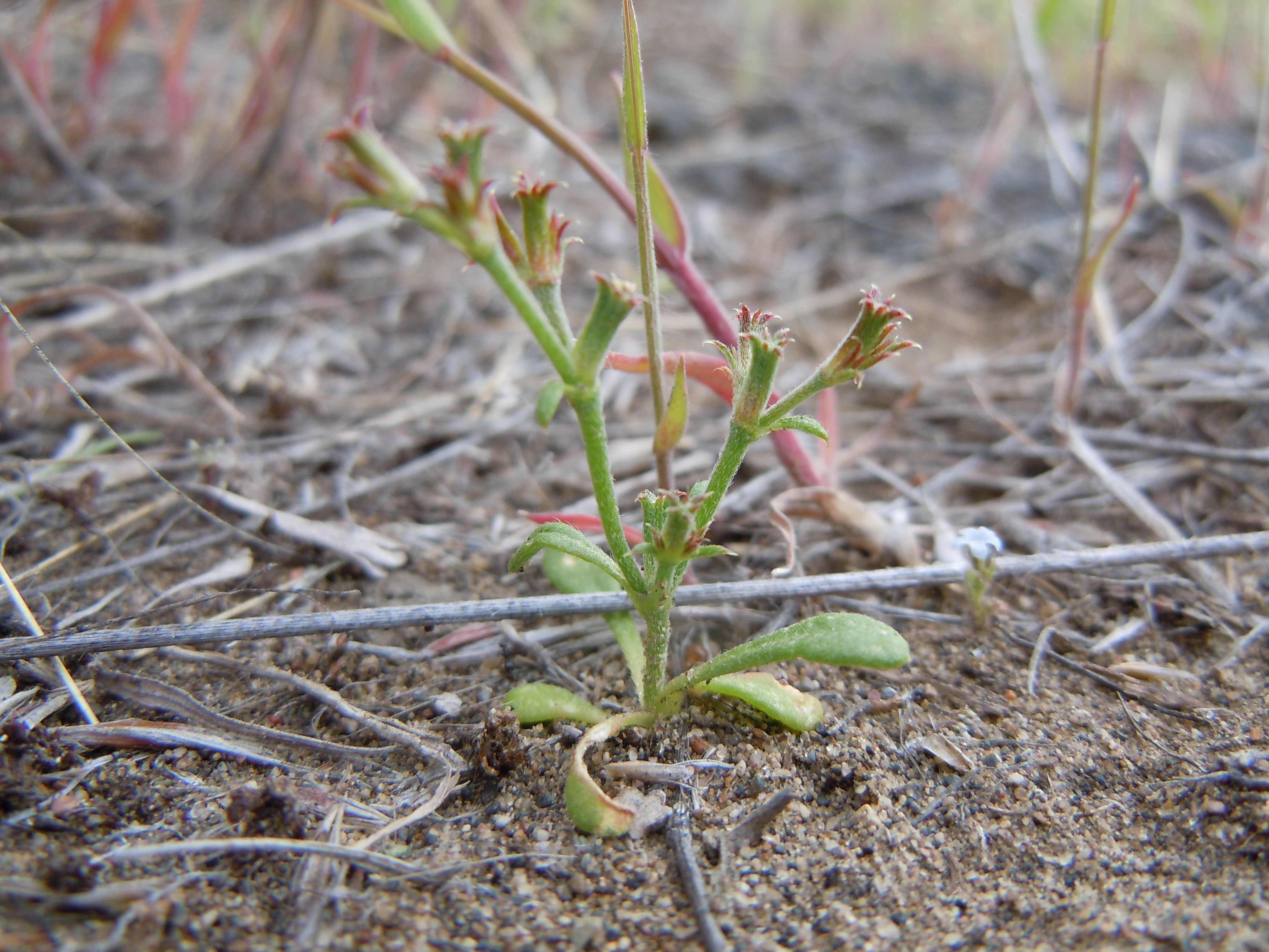 The inflorescence bracts are paired, a diagnostic trait of Chorizanthe. The tubular structures are involucres, which enclose typically two flowers. The involucres have about 6 recurved (uncinate) teeth around the distal end (rim of the opening), which is distinctive to a subset of species of Chorizanthe. This species is noted for its erect to ascending growth habit and stems that disarticulate at the nodes by late summer and fall.